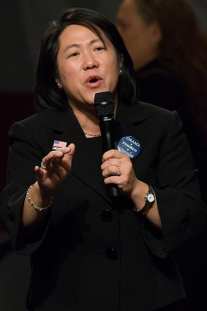 Minnesota state senator Mee Moua (Mim Muas), the highest serving Hmong American politician, speaks at a rally on Oct. 30, 2008 in support of Barack Obama, Al Franken and other Minnesota Democratic candidates. Hmoob: Mim Muas